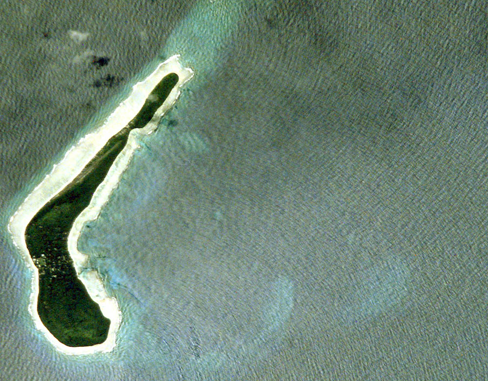 Image ISS002-E-9208 of NASA, of Ulul (Onoun) Island, Namonuito Atoll, Chuuk State, Micronesia, Pacific Ocean